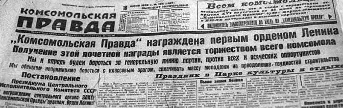 "Komsomolskaya Pravda" - first recipient of an Order of Lenin 23.05.1930